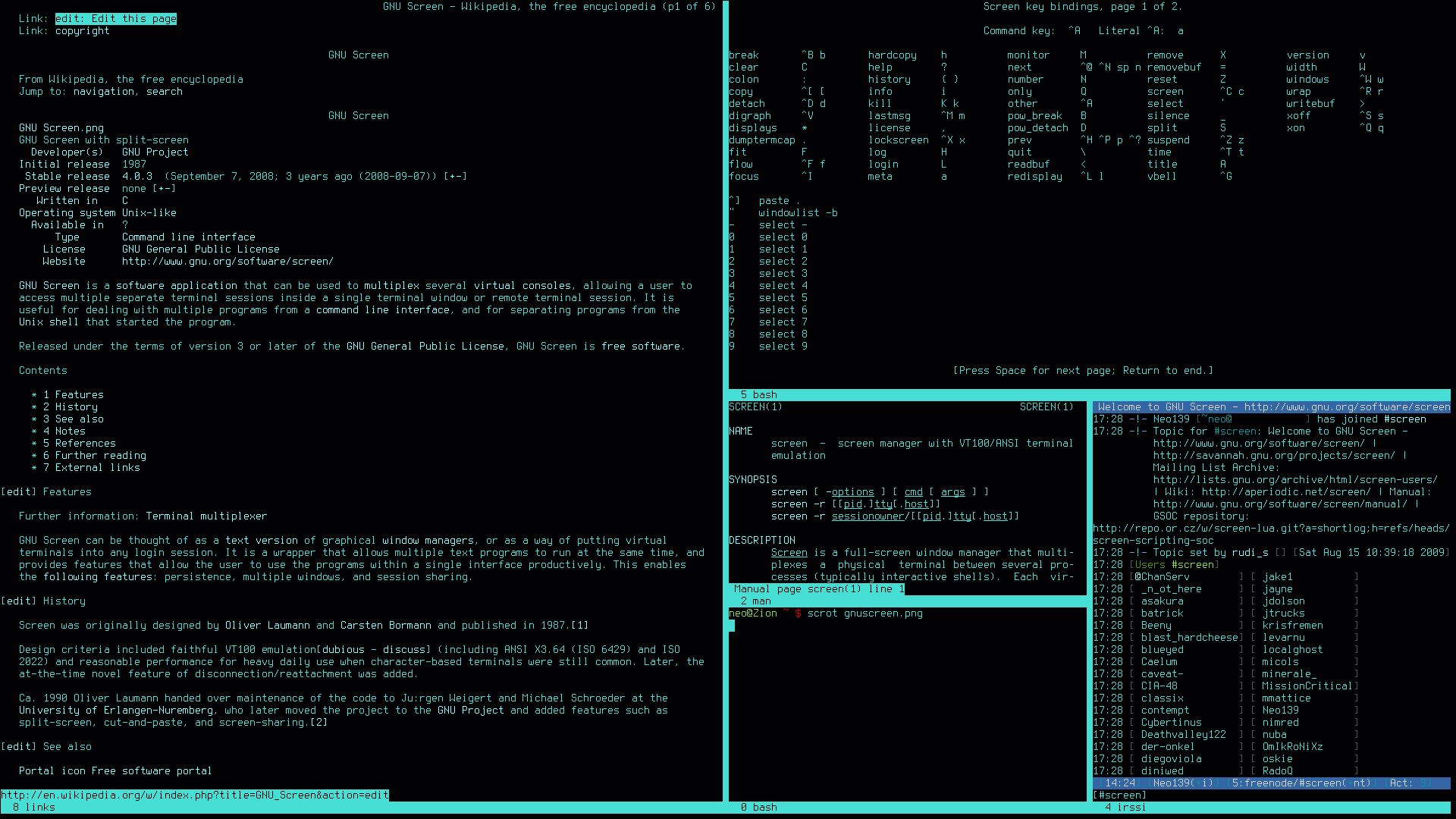 GNU Screen split screen. At the left, links (web browser), at the right top, screen's help. At the bottom we have screen's man page, IRC client irssi, and a terminal taking this screenshot.